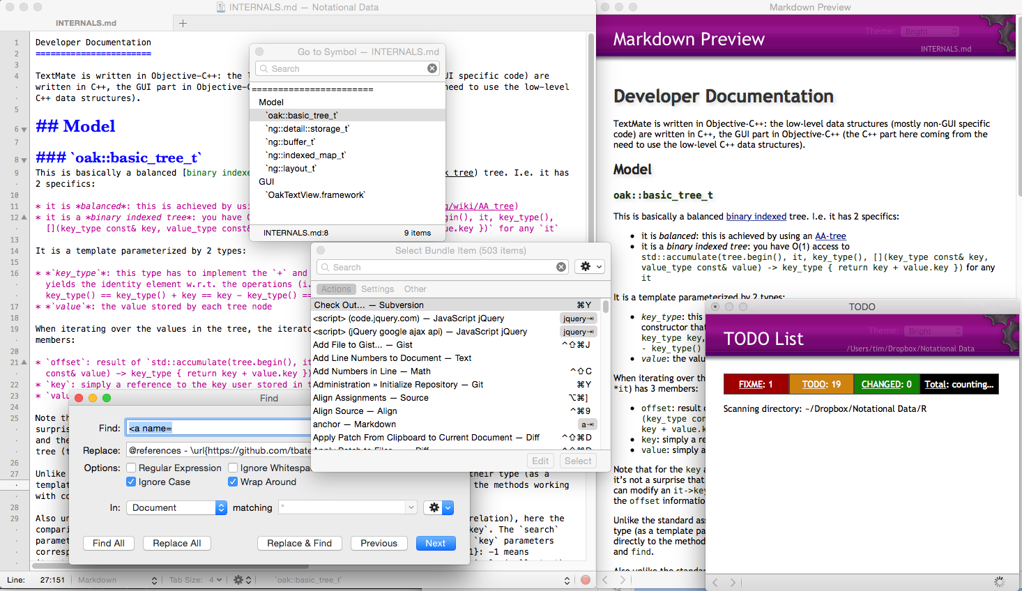 Screenshot of Textmate 2.0-beta.1 for TextMate wikipedia page